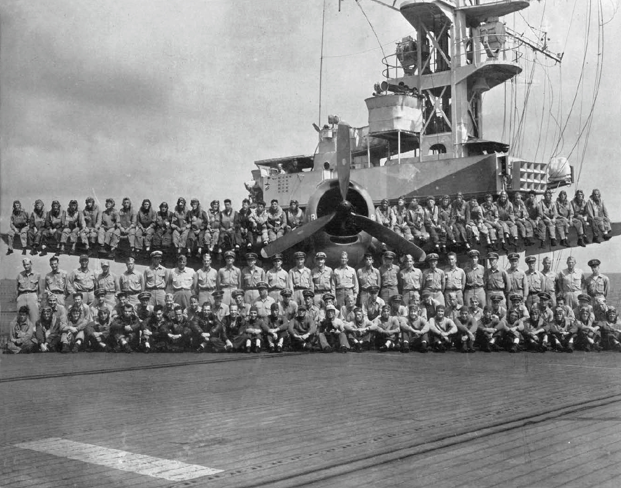 The crewmembers of the U.S. Navy Composite Squadron 85 (VC-85) pose for a photo with one of the squadron's Grumman TBF Avenger aboard the escort carrier USS Lunga Point (CVE-94). VC-85 operated from Lunga Point from 16 August 1944 to 11 May 1945.